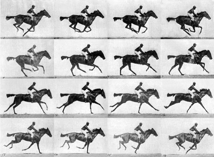 Sequence of a race horse galloping. Photos taken by Eadweard Muybridge (died 1904), first published in 1887 at Philadelphia.